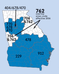 areacode map